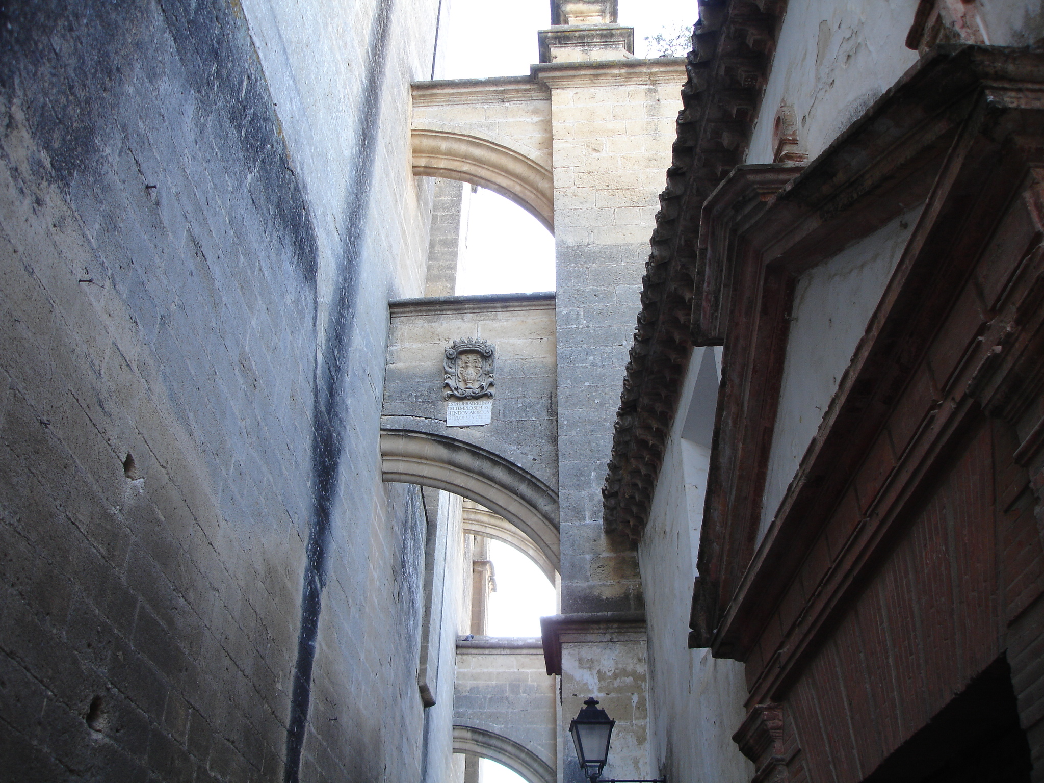 Detail in Arcos de la Frontera, Andalusia (Spain)